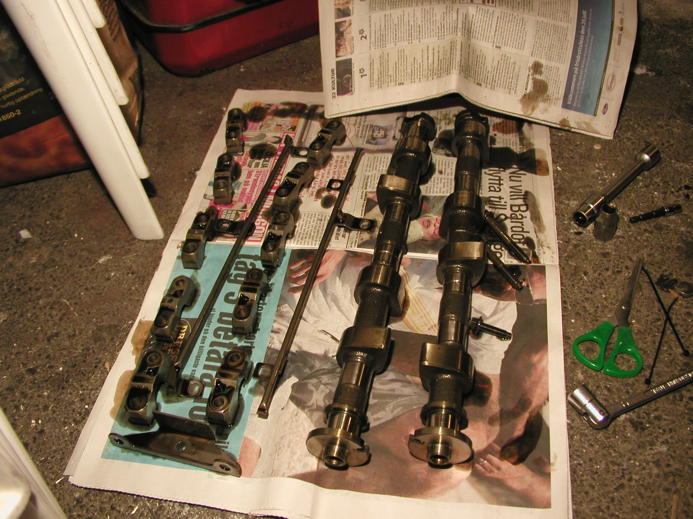 The cam shafts of a Ford I4 DOHC engine. The intake camshaft is on the left, and the exhaust camshaft is on the right. On the left of the camshafts are the upper halves of the camshaft bearings (the lower halves having been machined as part of the cylinder head) and the lubricators, which are mounted above the camshafts to spray them with oil.